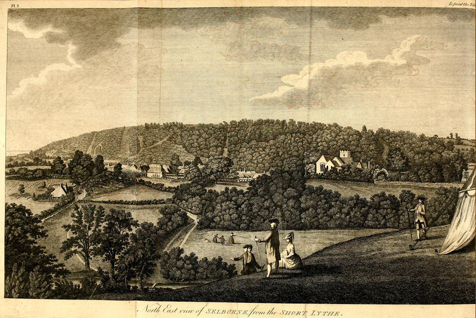 Foldout frontispiece, North East view of Selborne from the Short Lythe, of Gilbert White's The Natural History and Antiquities of Selborne, 1789, drawn by Samuel Hieronymus Grimm.